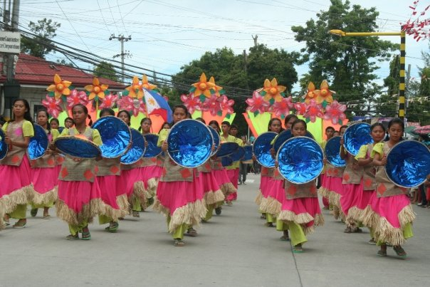 Sandugo Streetdancing